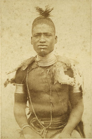 Portrait of an Acholi man